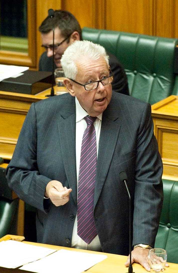 Pacific Parliamentary and Political Leaders Forum, 2013 : New Zealand Parliamentary Debate on Pacific Issues. Mr John Hayes, National Party.